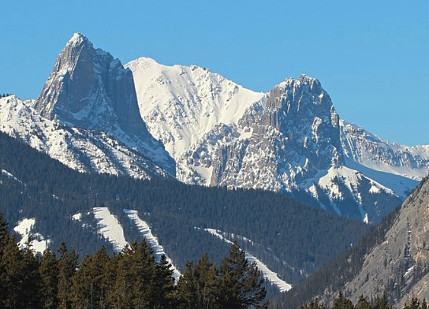 Mt. Louis and Mt. Fifi seen from Johnson Lake, Alberta Canada